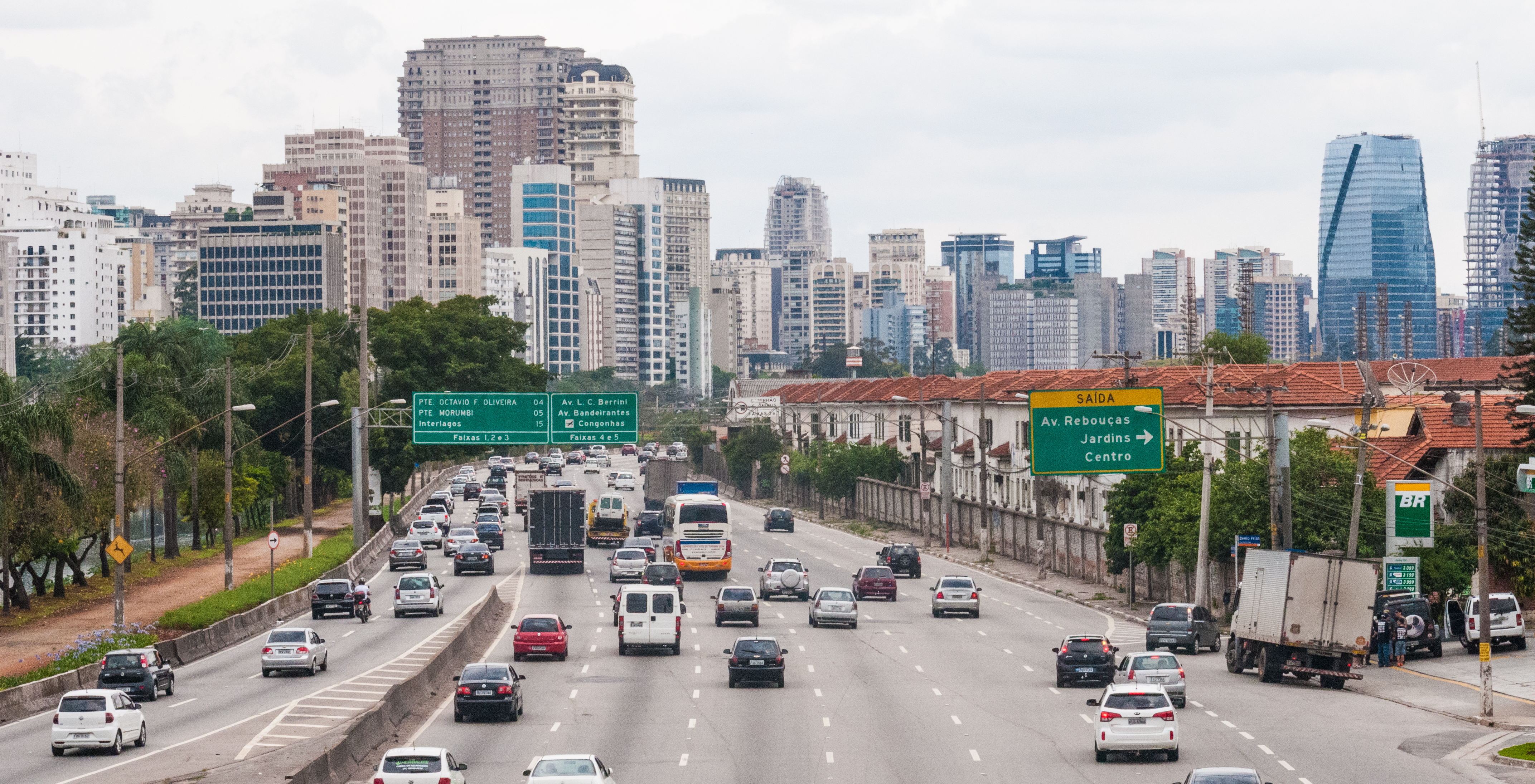 Marginal Pinheiros Street, São Paulo city